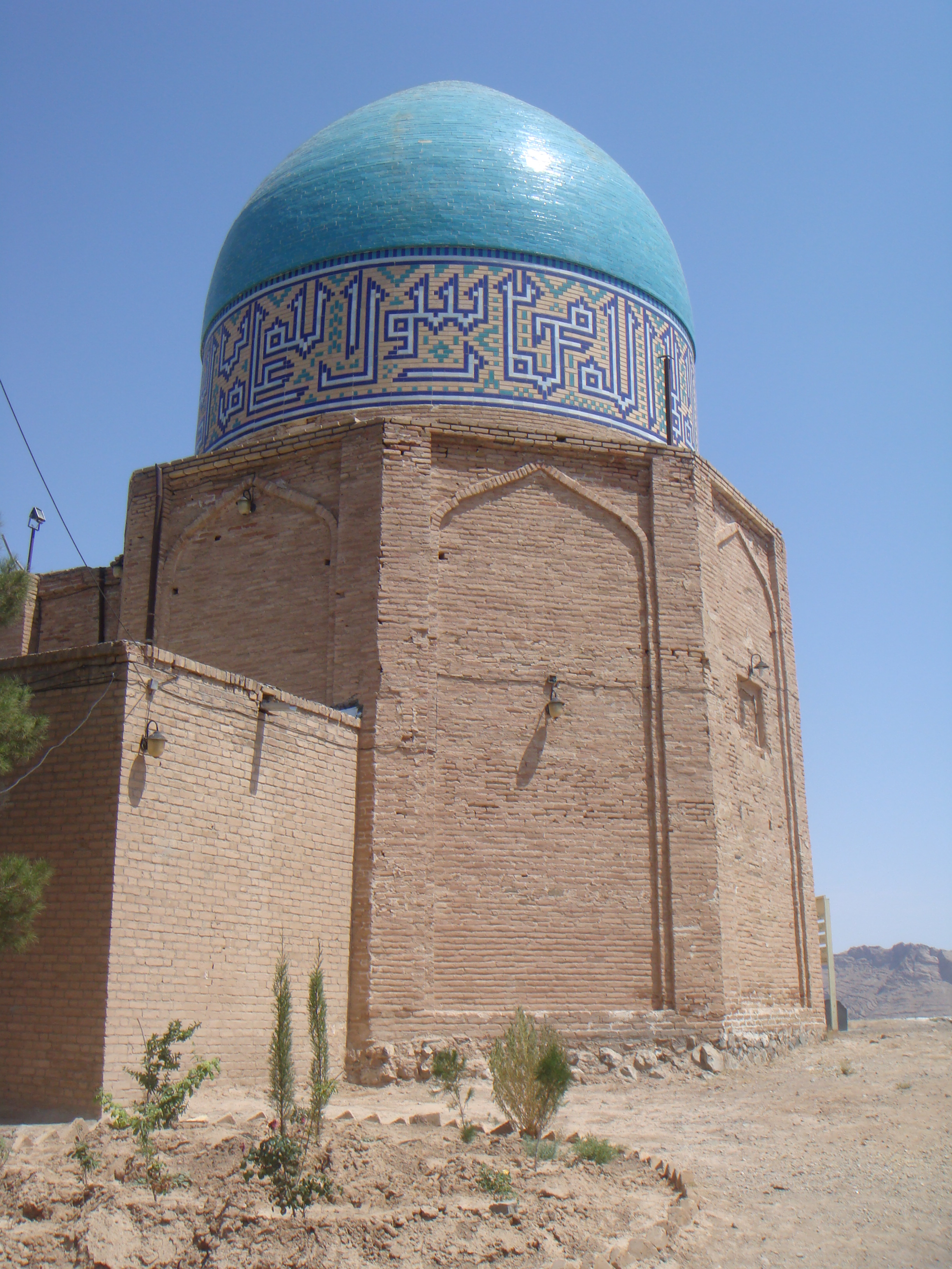 Shrine of Sayyed Hassan Vaqef